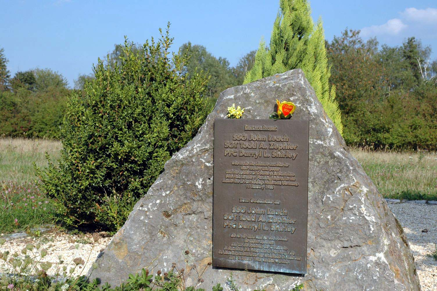 memorial stone to the victims of the missile accident on Januar 11th, 1985 in Camp Redleg, Heilbronn (Germany), inscription: Lest we forget SSG John Leach SGT Todd A. Zephier PFC Darryl L. Shirley who made the ultimate sacrifice for their country and peace and the soldiers of C Battery, 3d Battalion, 84th Field Artillery (Pershing) injured in the missile fire at Fort Redleg, Heilbronn/Germany, 11 January 1985